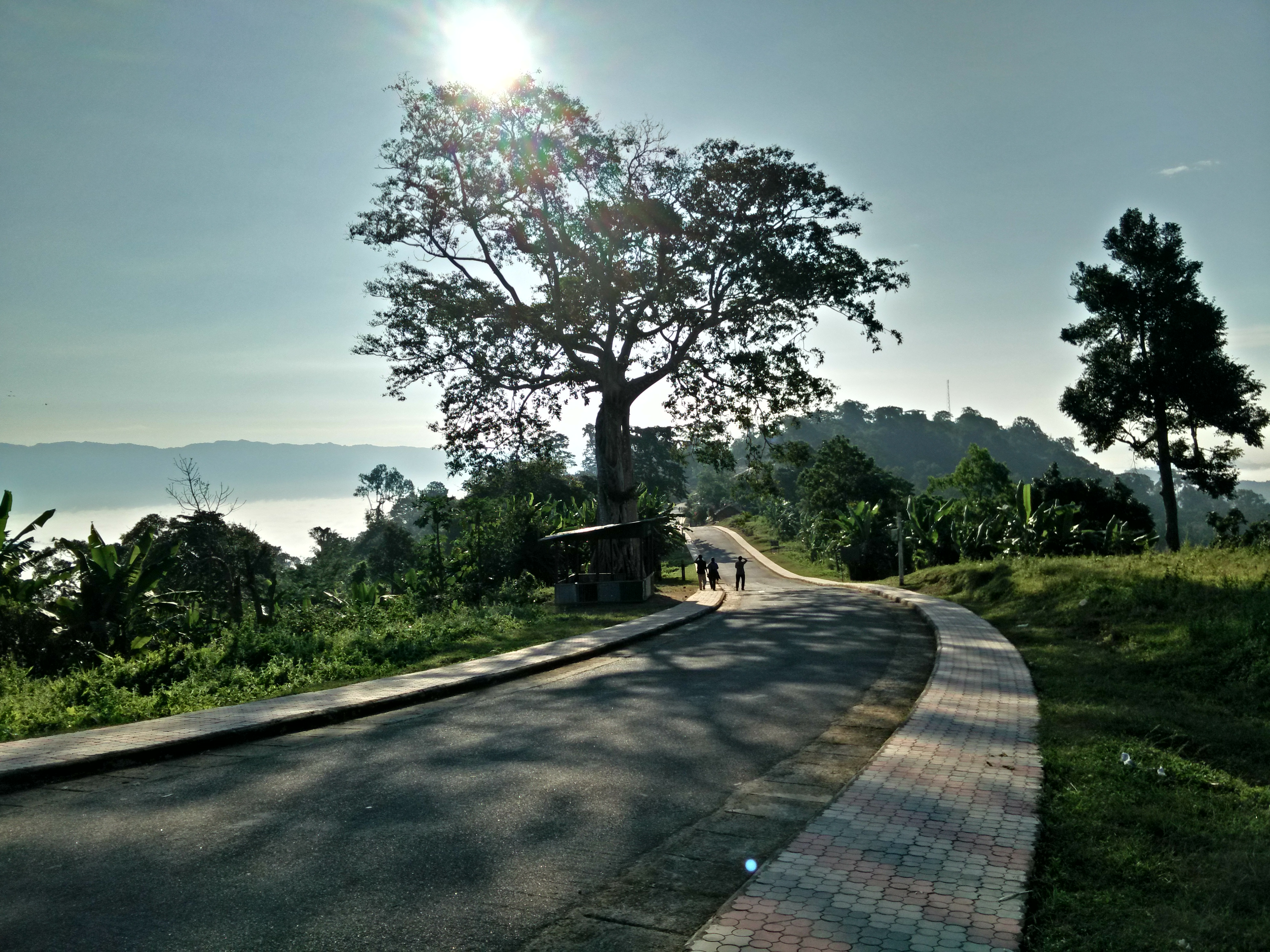 Road, that passes through Sajek union, Rangamati district, Bangladesh.